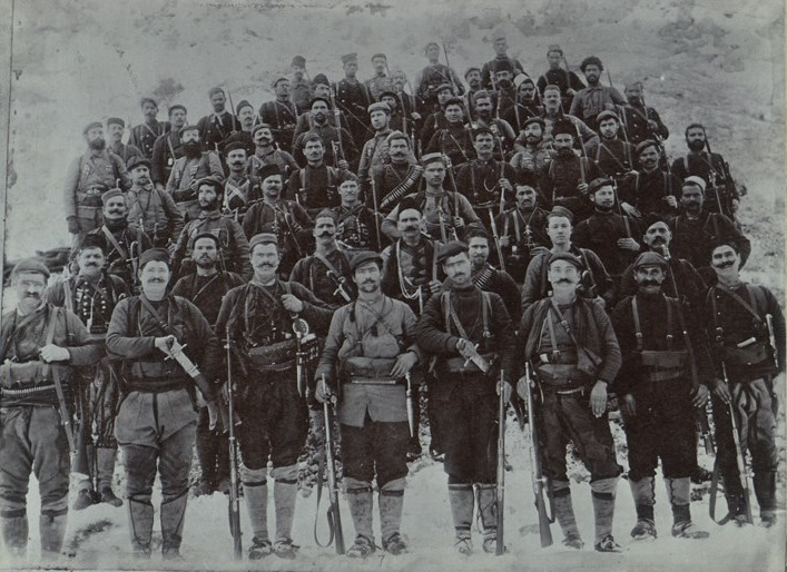 IMARO